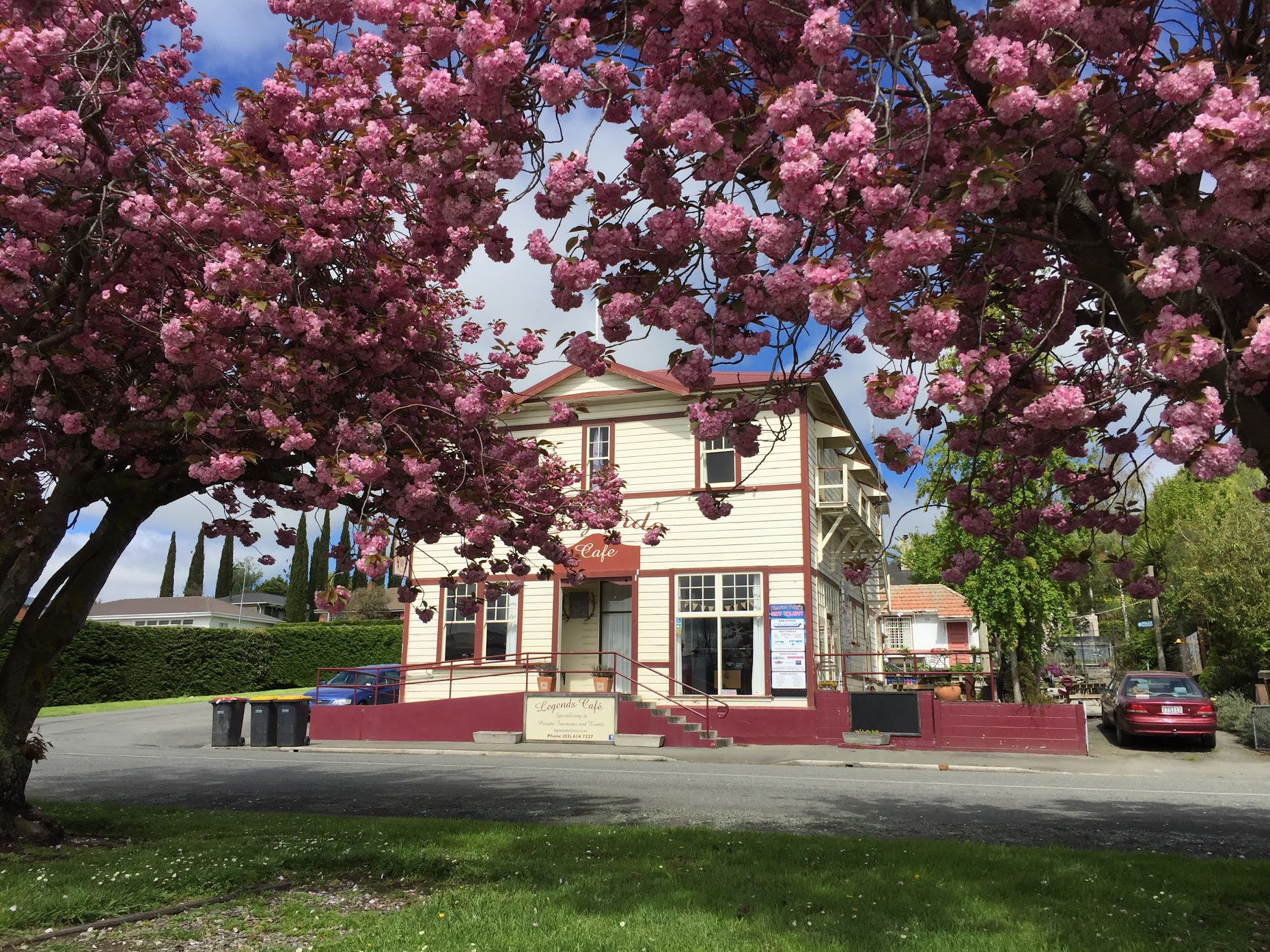 Legends Cafe, Pleasant Point Spring